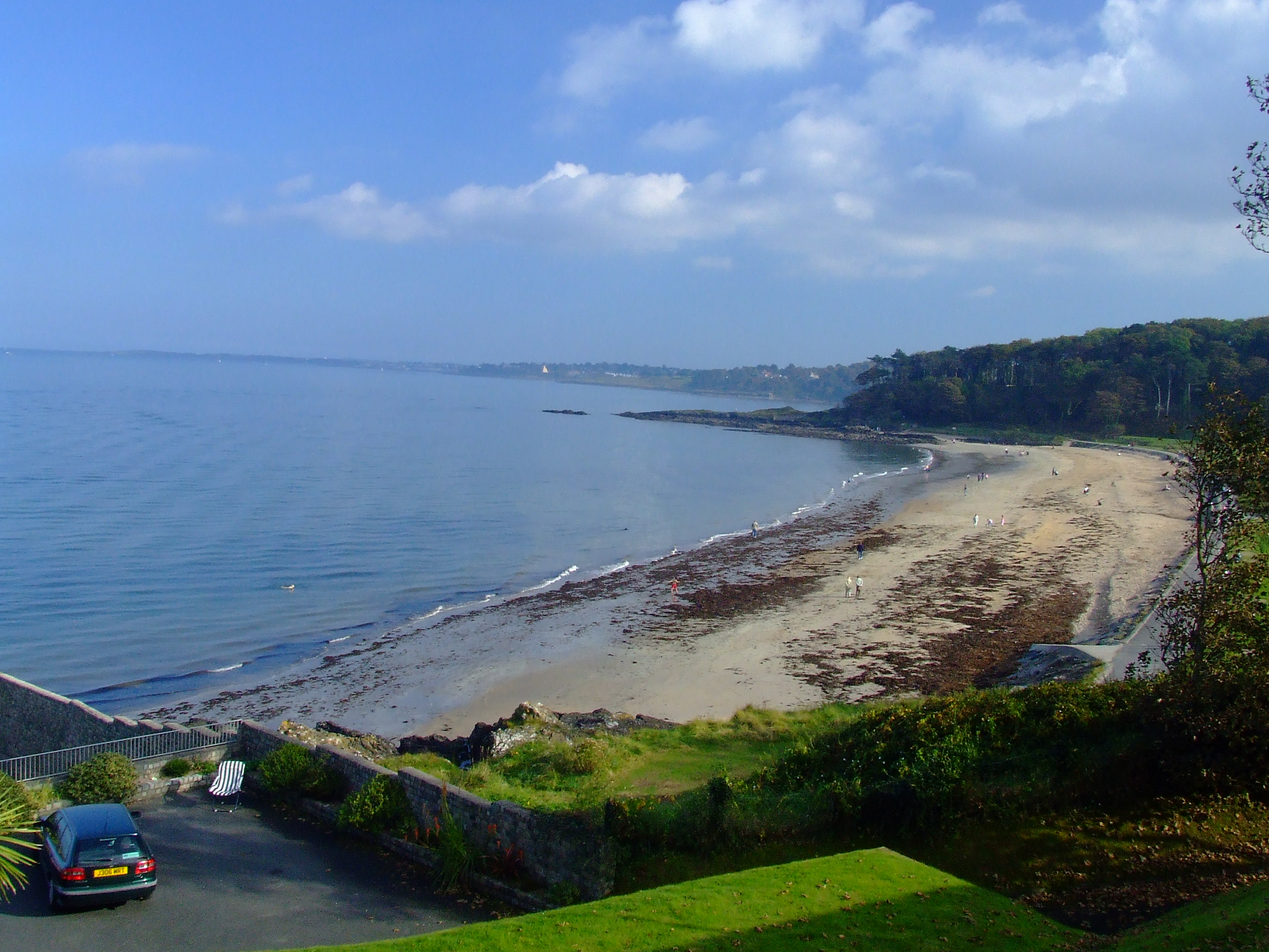 A beach in Helens Bay, County Down, Northern Ireland